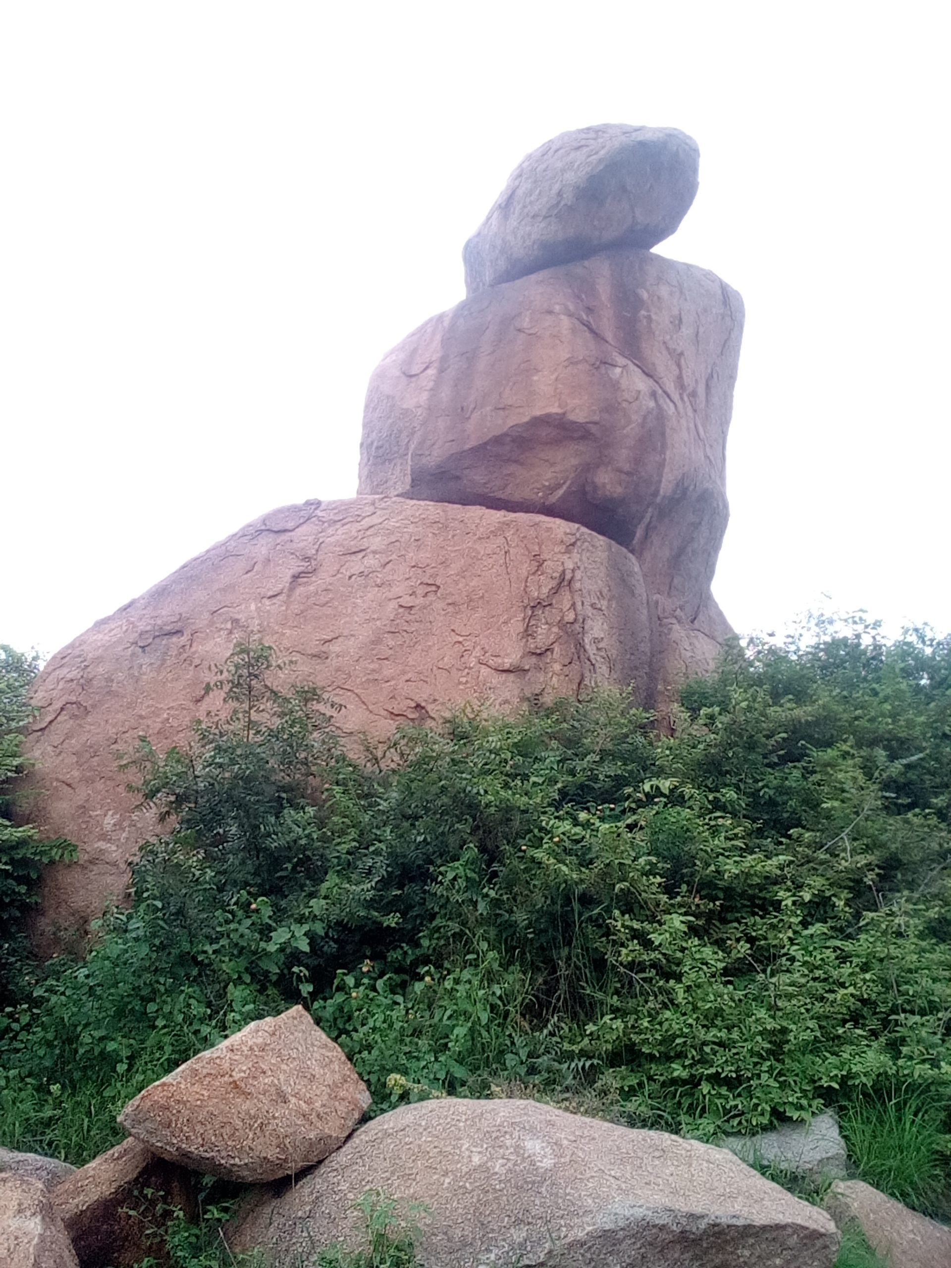 چندیری کے ایک خوبصورت مقام کا منظر